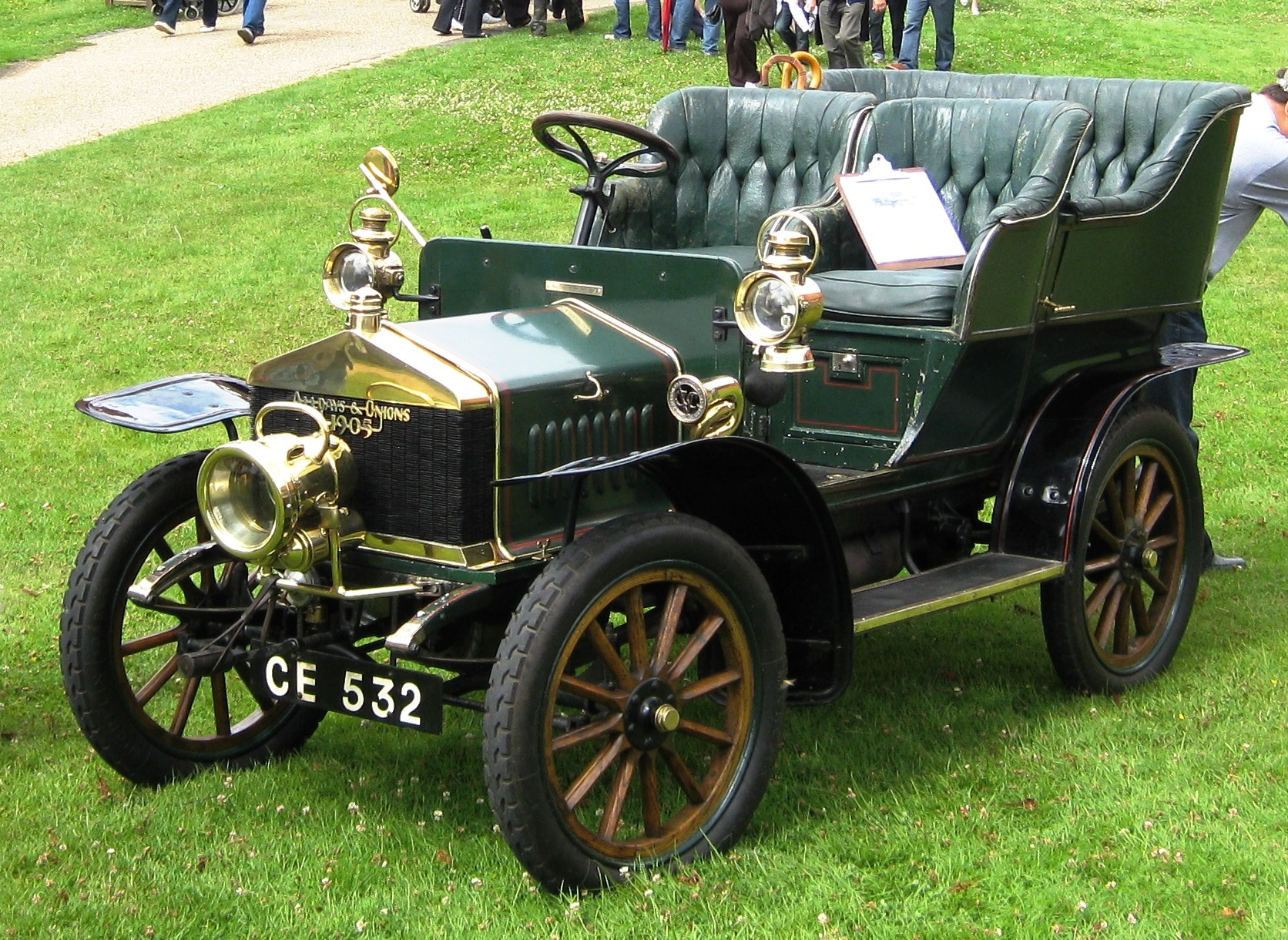 Alldays & Onions 1905. Car owned by Mr Roy Goodrum (2016)